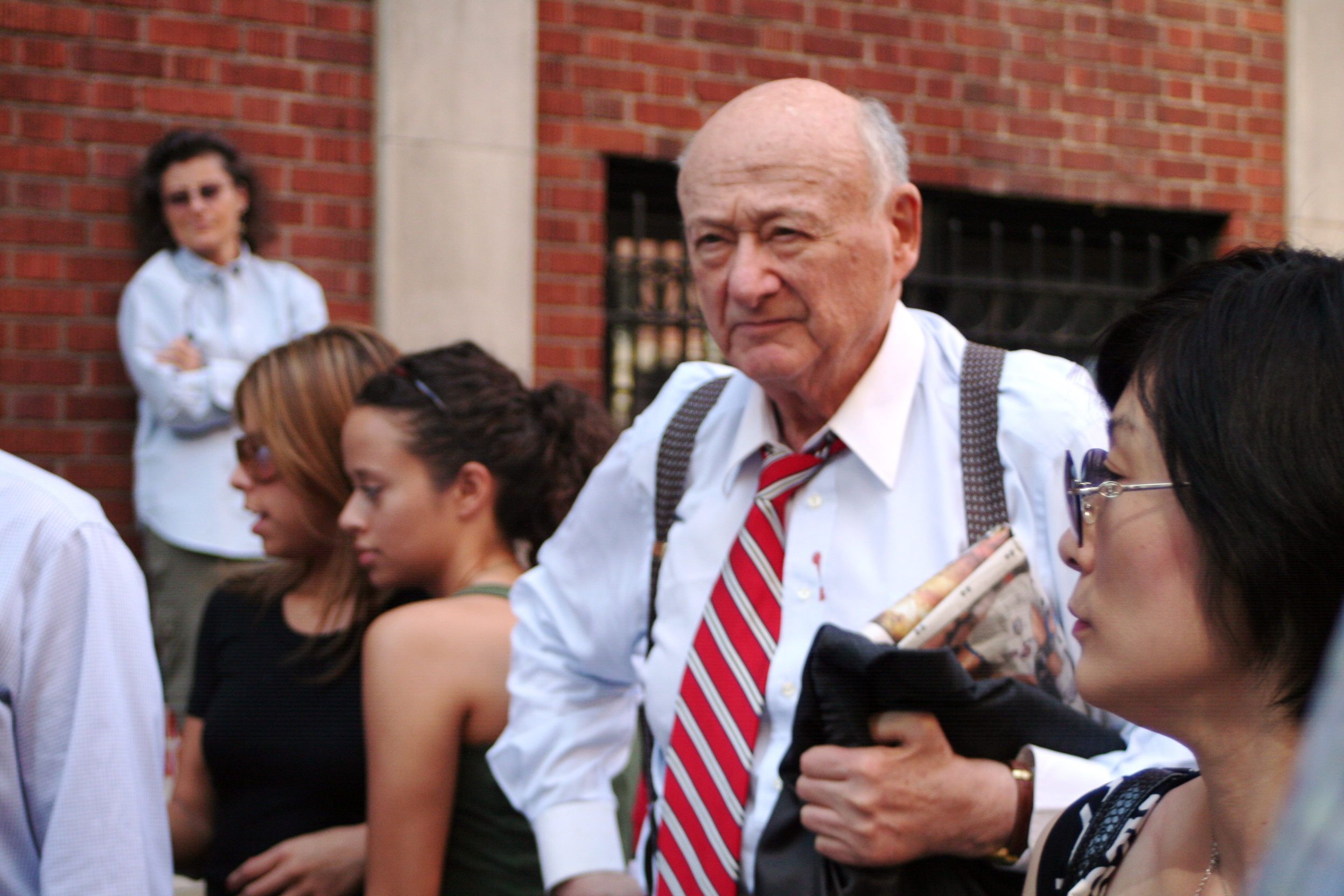 Former New York Mayor Ed Koch not happy at the Gay pride parade 2007 Someone threw something at his shirt and stained it. He looked really uncomfortable.